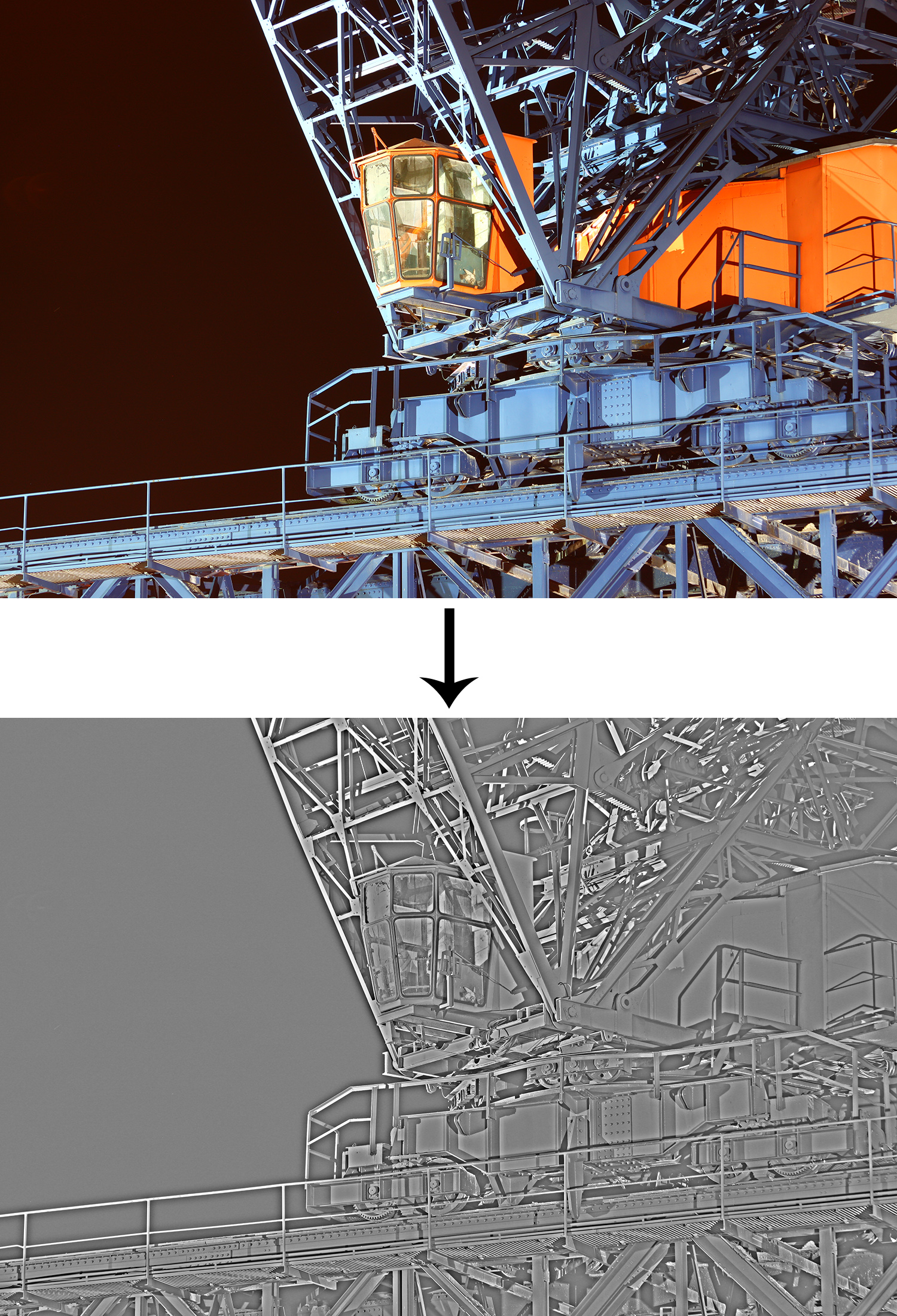 A comparison between a normal RGB-color image and the same image with a highpass filter applied (the chroma was previously reduced, too).